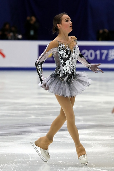 Alina Zagitova at the Cup of China 2017 - Short program